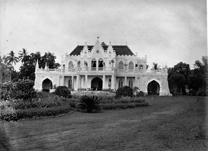 The house of the painter Raden Saleh in Batavia.